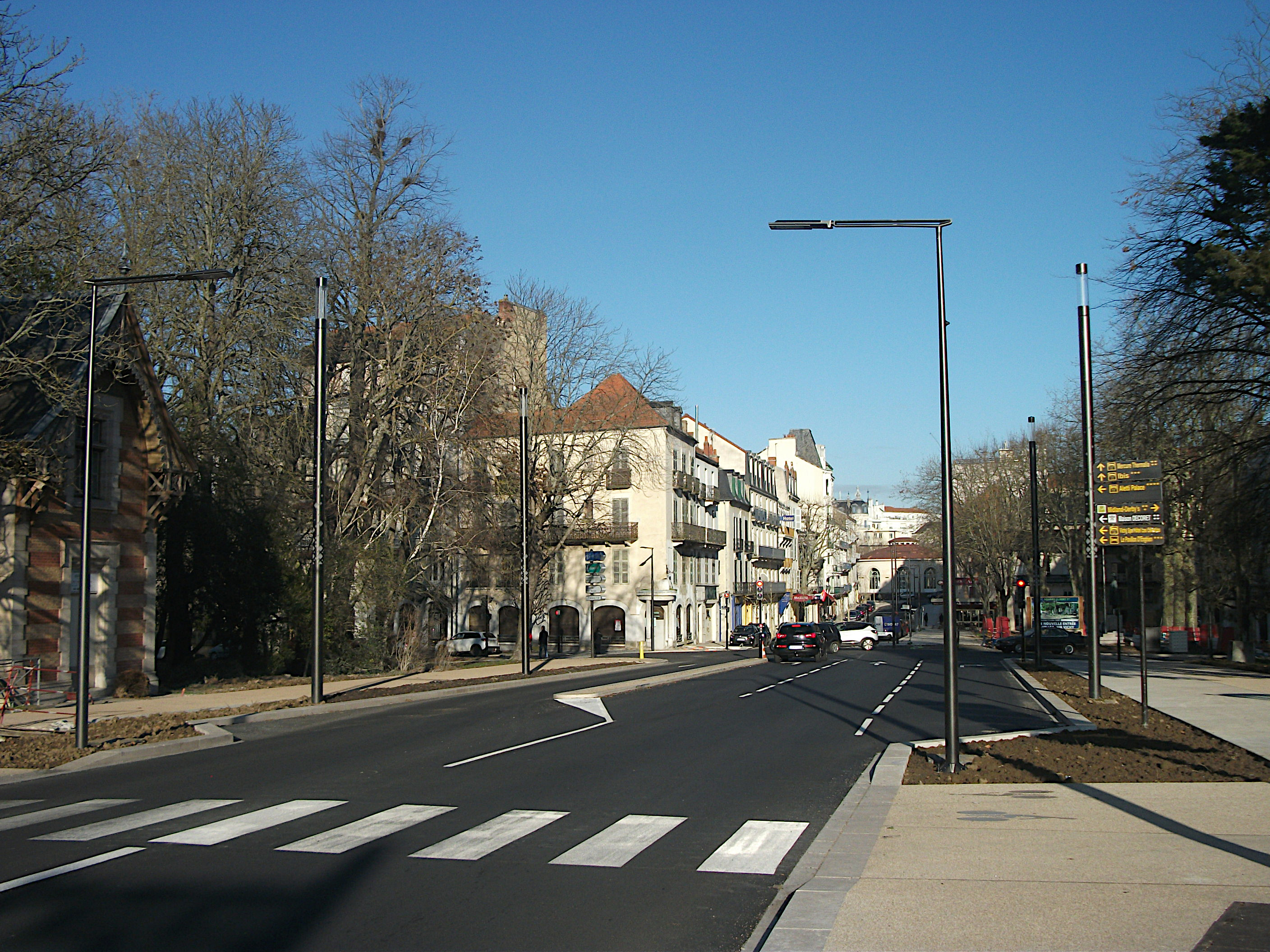 Entrance of Vichy from the Pont Aristide-Briand* or Pont de Bellerive* crossing Allier river* by departmental road 2209. Road renovated in December 2019. [19723] (* unsigned by a road sign)